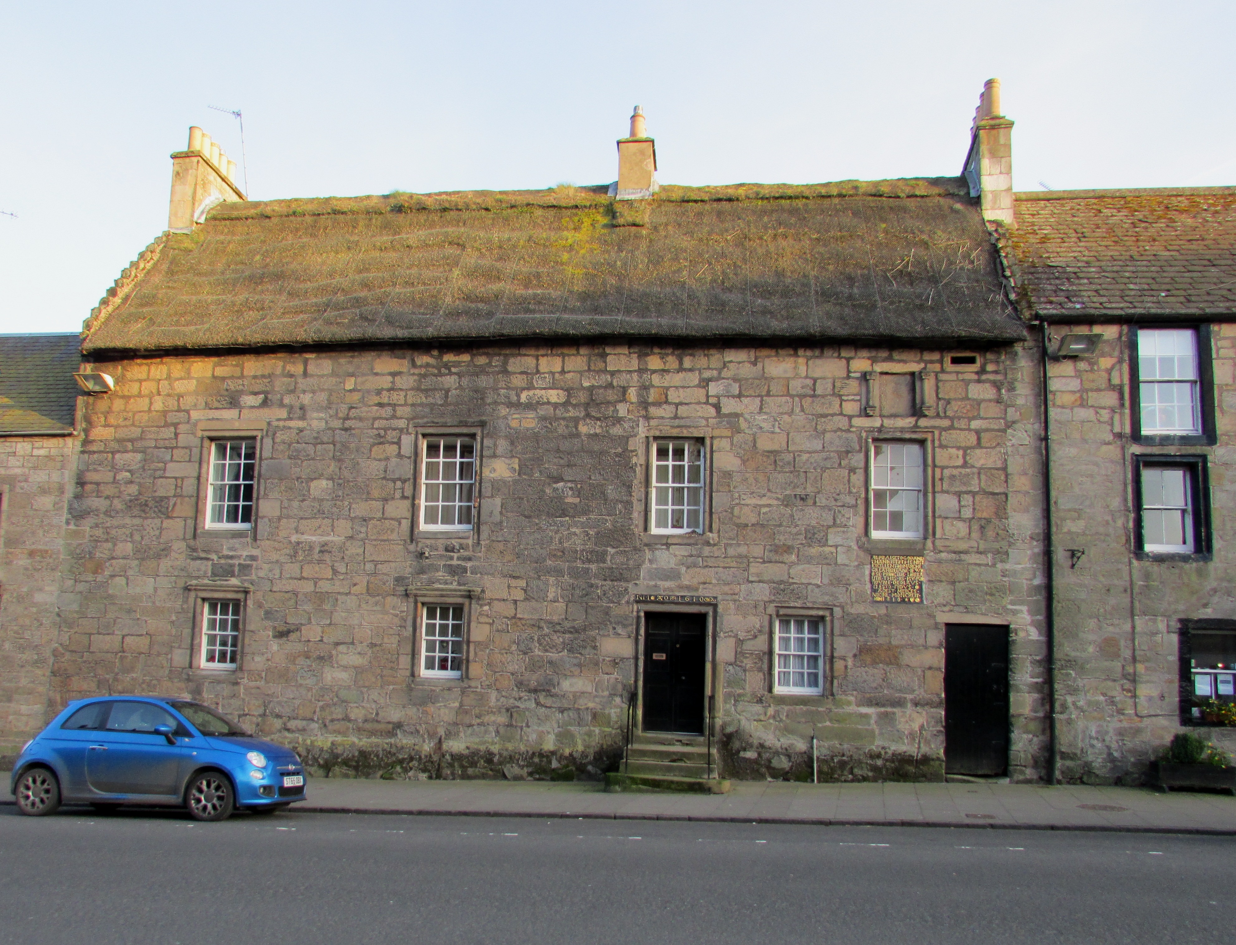 Moncrief House, Falkland